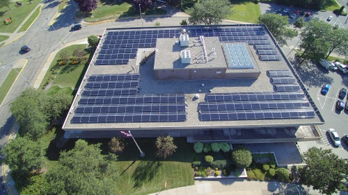 This 235 kW solar system was the largest in Central Wisconsin and the largest on a public library in Wisconsin when installed in August 2017.